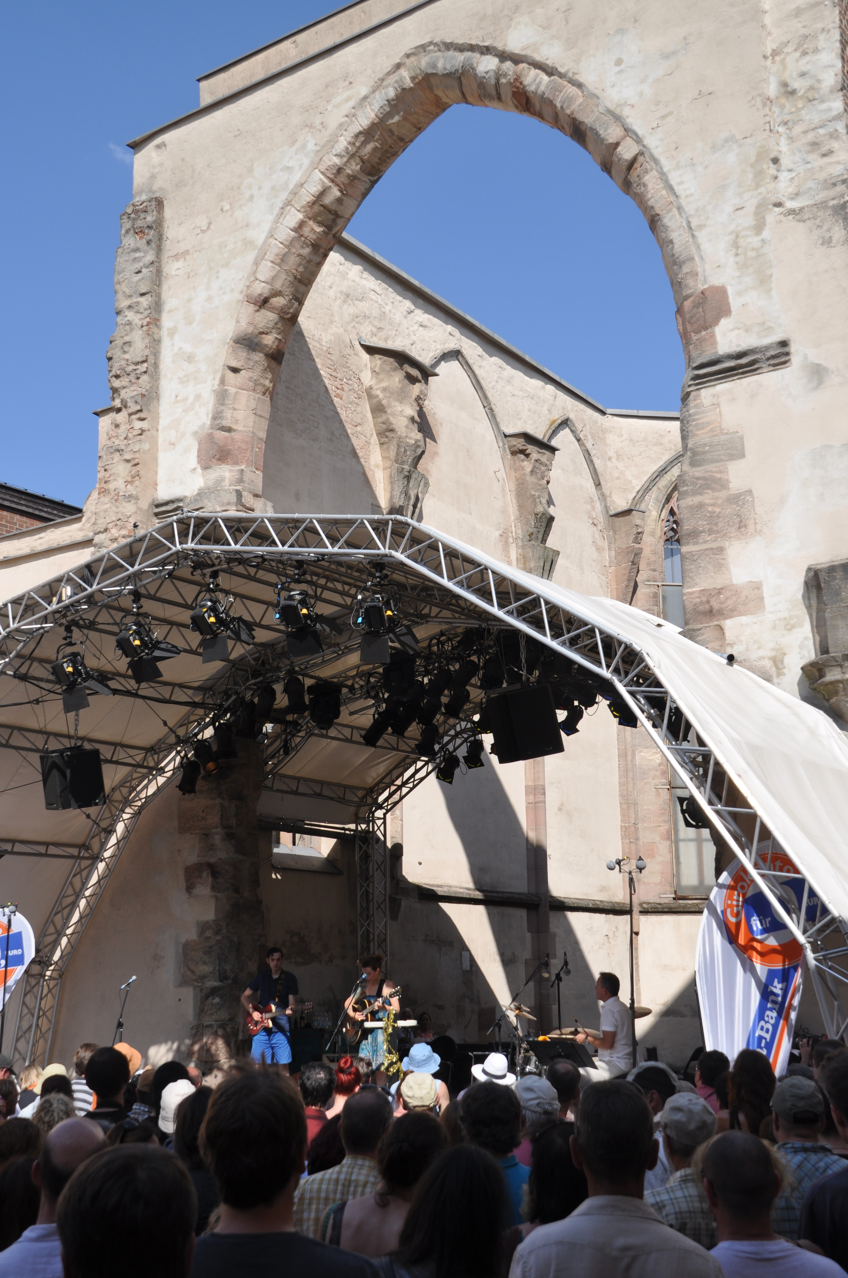 Guðrið Hansdóttir (Faroes), appearance at the 38th music festival "Bardentreffen" 2013 in Nuremberg, Germany, St. Katharina stage